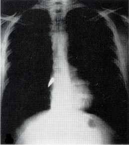 bullet in the heart. caption reads, "FIGURE 16.—Machinegun bullet in right side of heart near junction of right auricle and right ventricle. A. Posteroanterior roentgenogram. B. Left anterior oblique roentgenogram. The electrocardiogram showed no abnormalities."